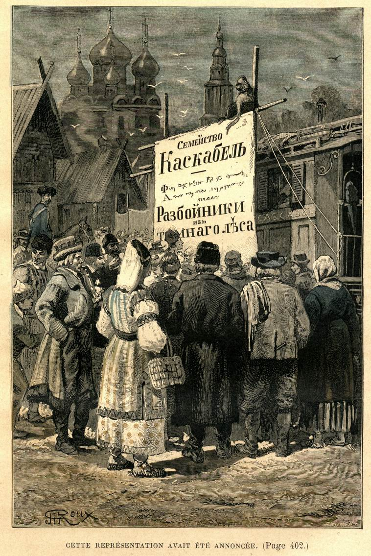 Original ilustration to Jules Verne book César Cascabel by Georga Rouxe